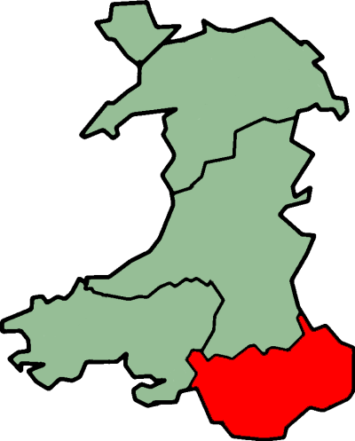 Self-made, based on Image:WalesNumbered.png